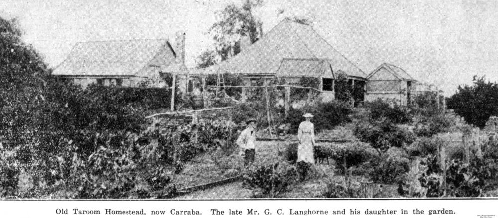 Taroom Station, ca. 1885 Caption: Old Taroom Homestead, now Carraba. The late Mr. G. C. Langhorne and his daughter in the garden.